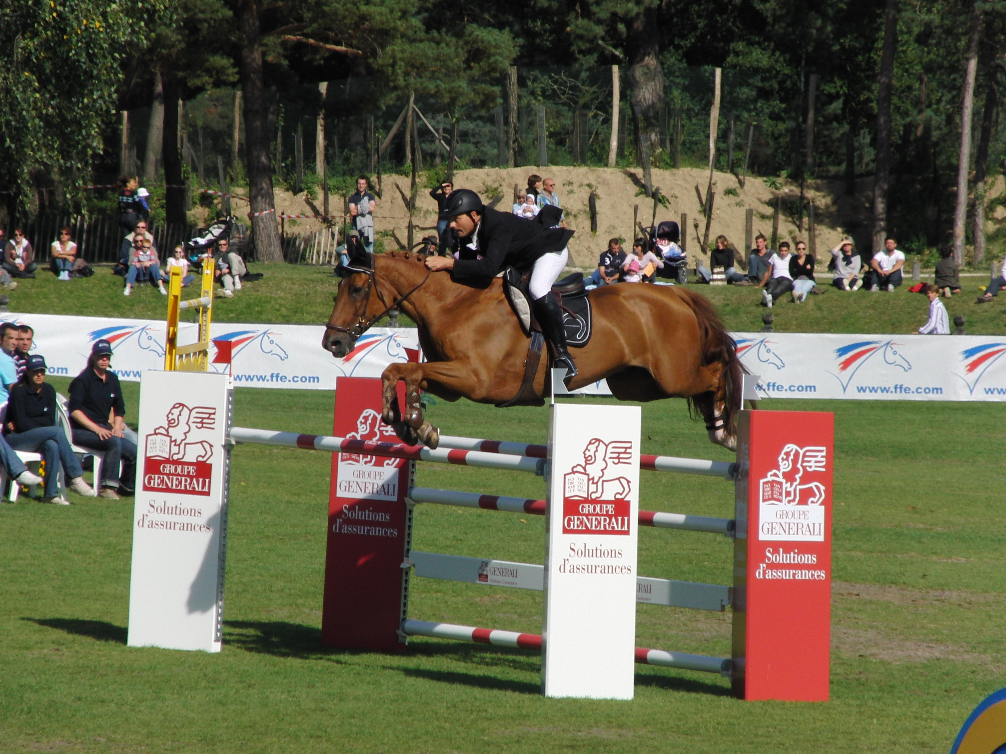 Stephan Lafouge and Gabelou des Ores, Selle français - Championnats de France de saut d'obstacles "Master Pro" 2010 at Fontainebleau, France